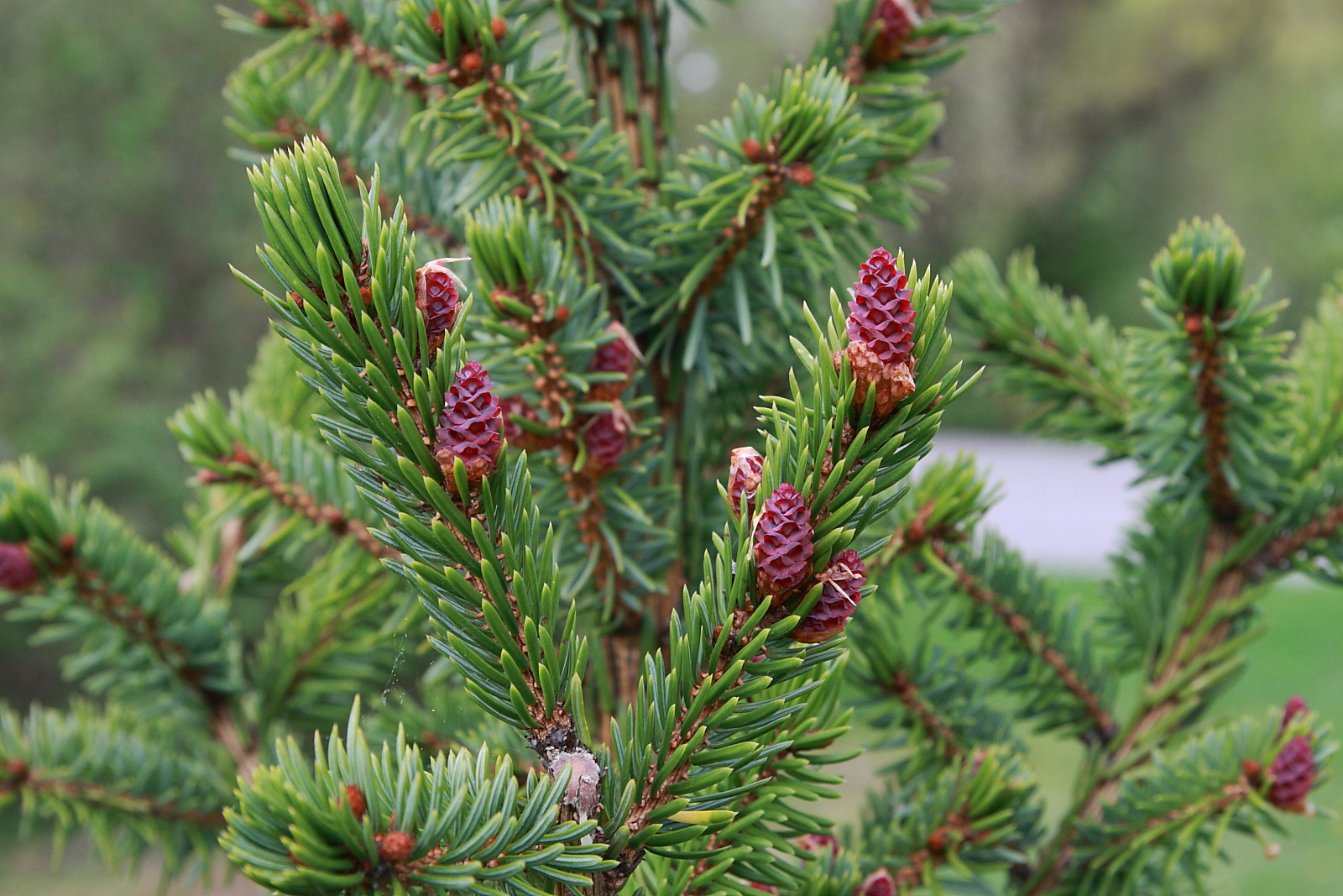 Picea omorika seed cones. Cultivated tree in Estonia, Keila.